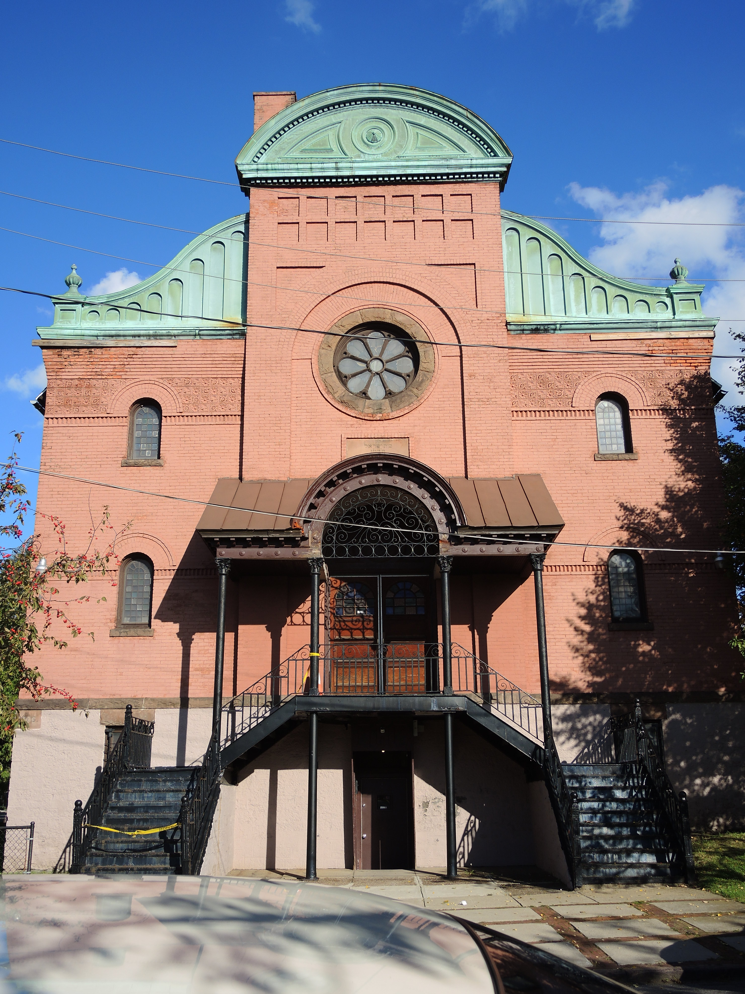 Front view of the Leopold Street Shule in Rochester, New York